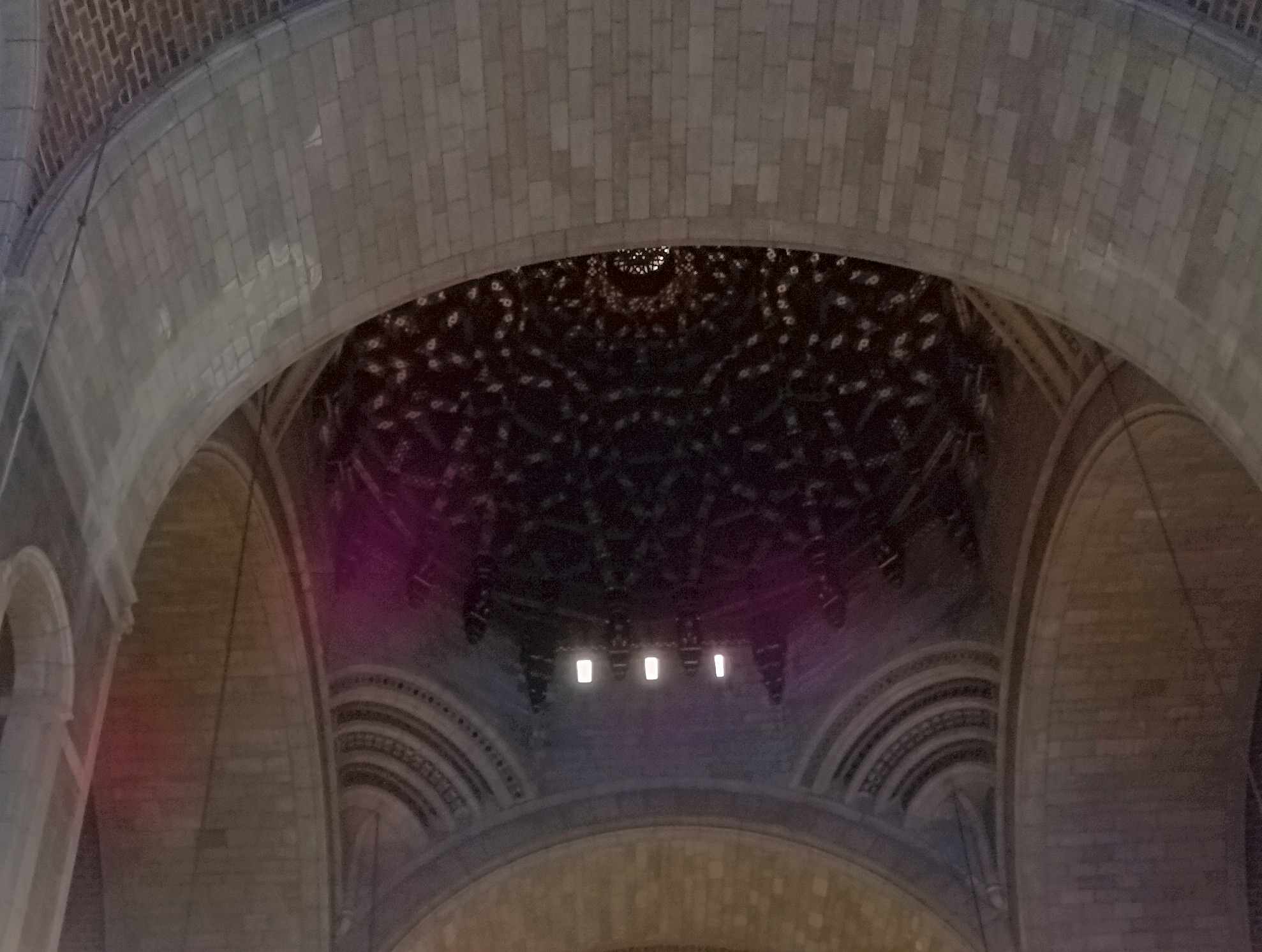 The dome at St. Bartholomew's (NYC Park Avenue) contains the Celestial Organ